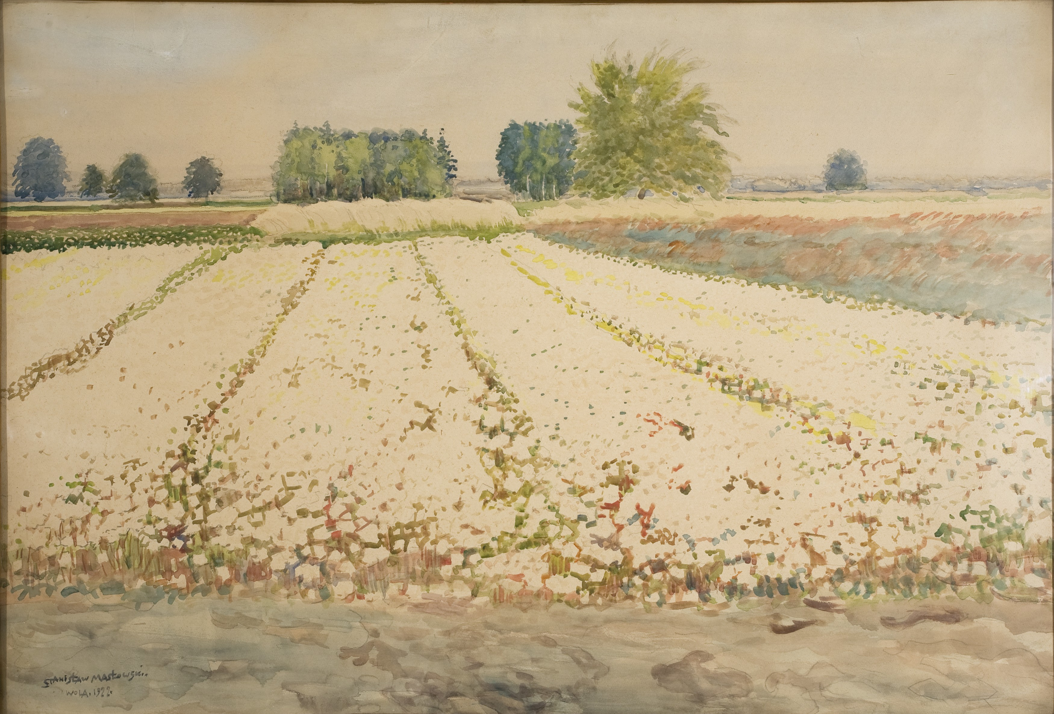 Created in 1922 in Wola Rafałowska village (Poland)